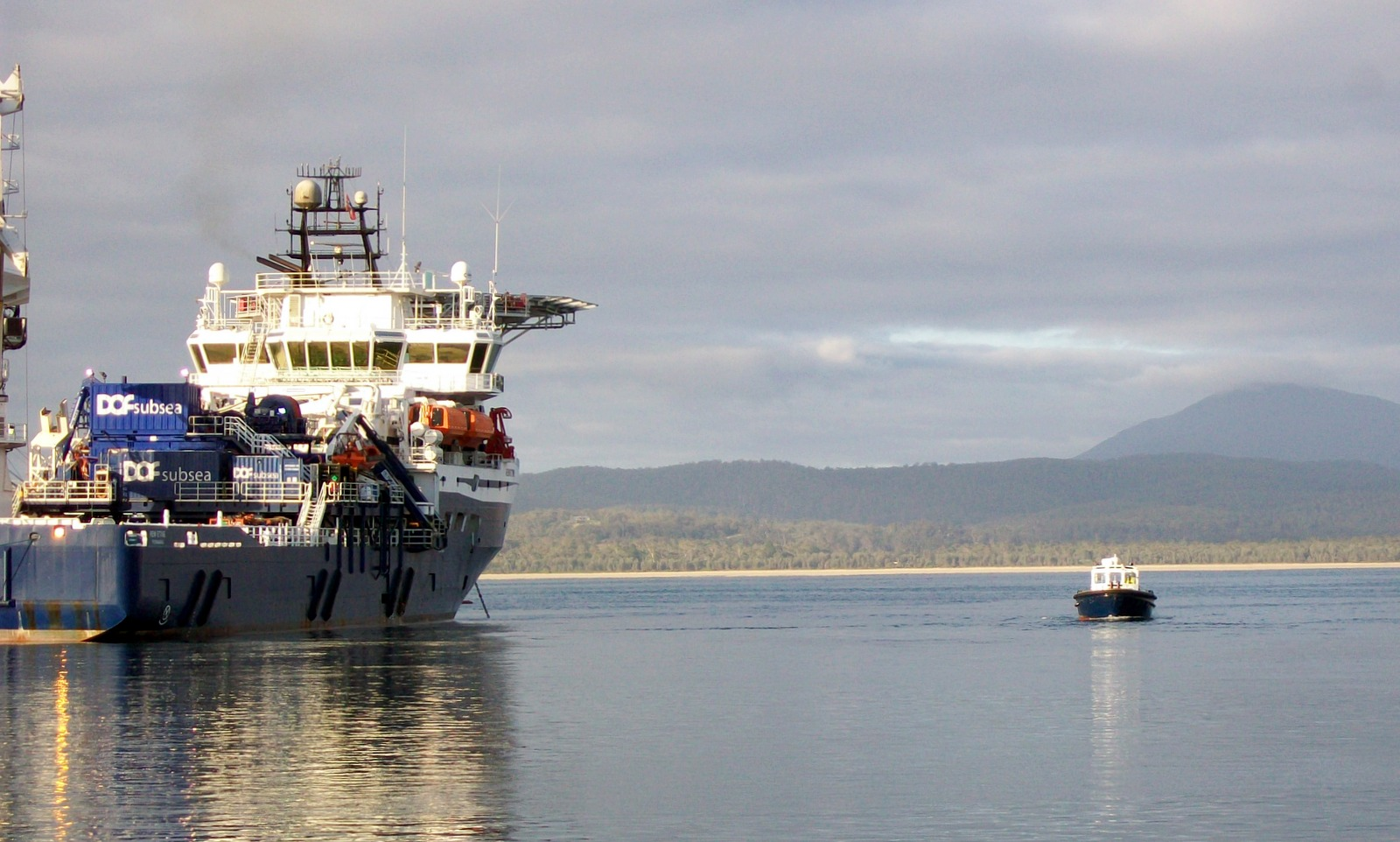 Eden harbour with the Rem Etive (from Norway). Mount Imlay in the background